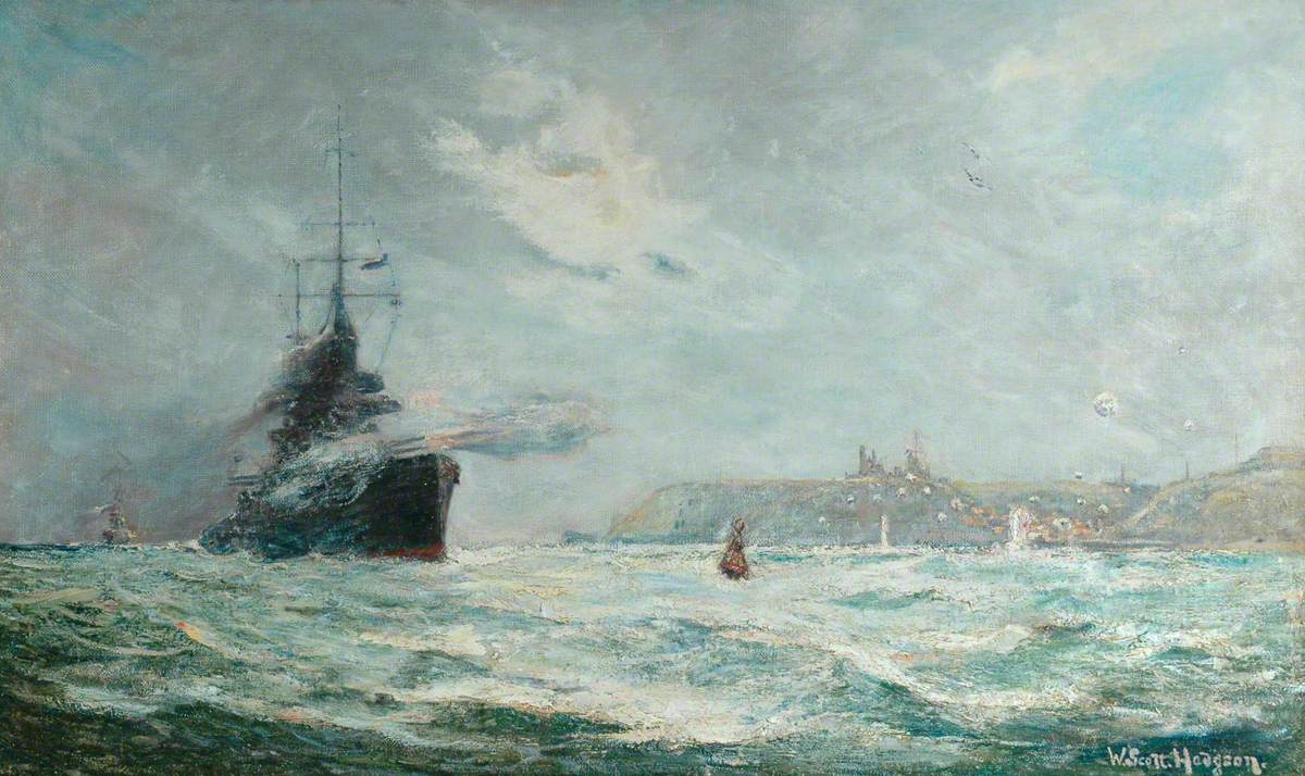 The Bombardment of Whitby, 16 December 1914, by William Scott Hodgson Pannett Art Gallery Medium oil on canvas Measurements H 75.1 x W 125.9 cm Accession number 116